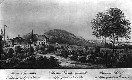 Grundhof in Radebeul, a manor house in Radebeul, picture from about 1823